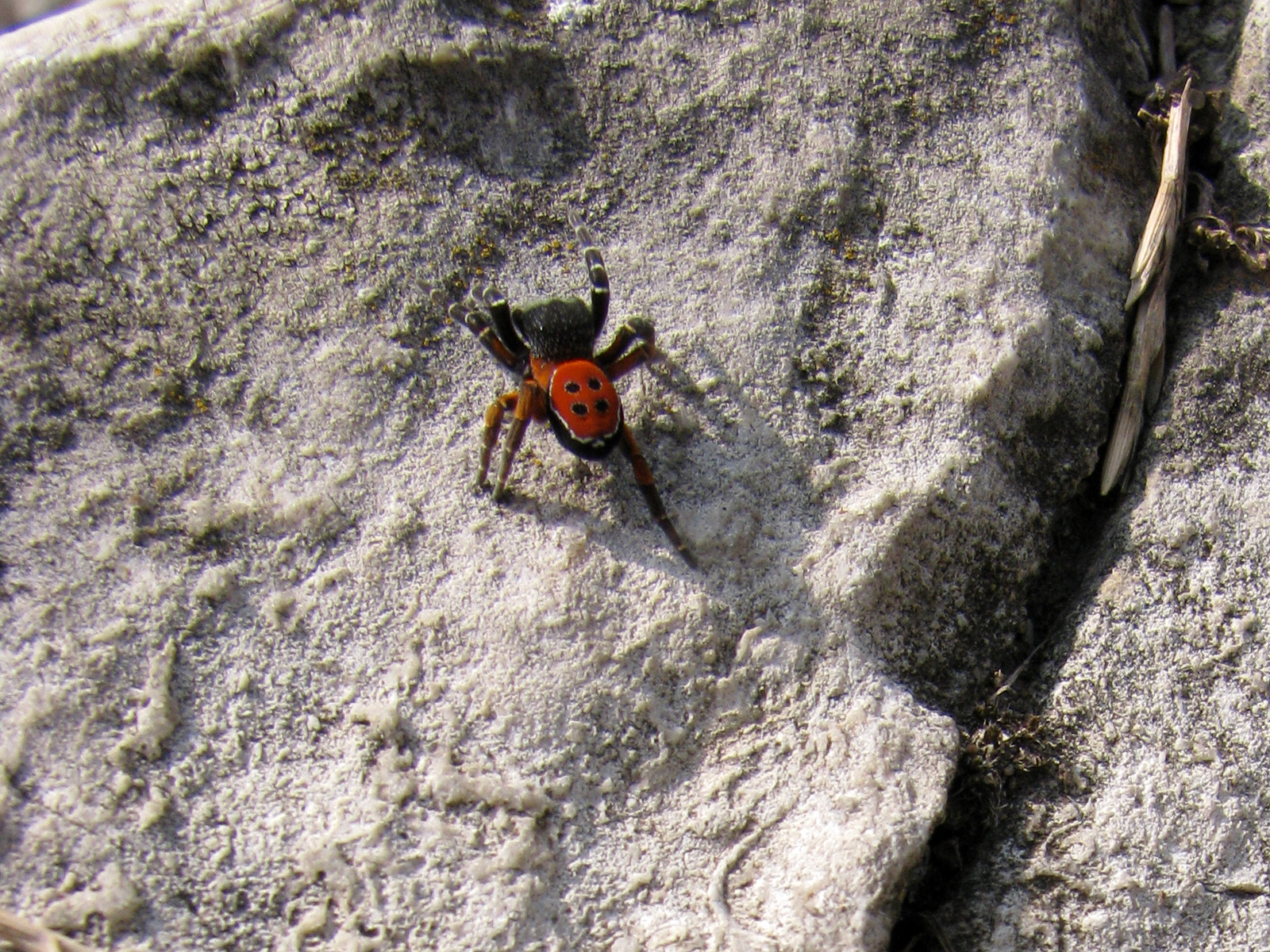 Venomous spider from southern Moravia (Czech Republic)